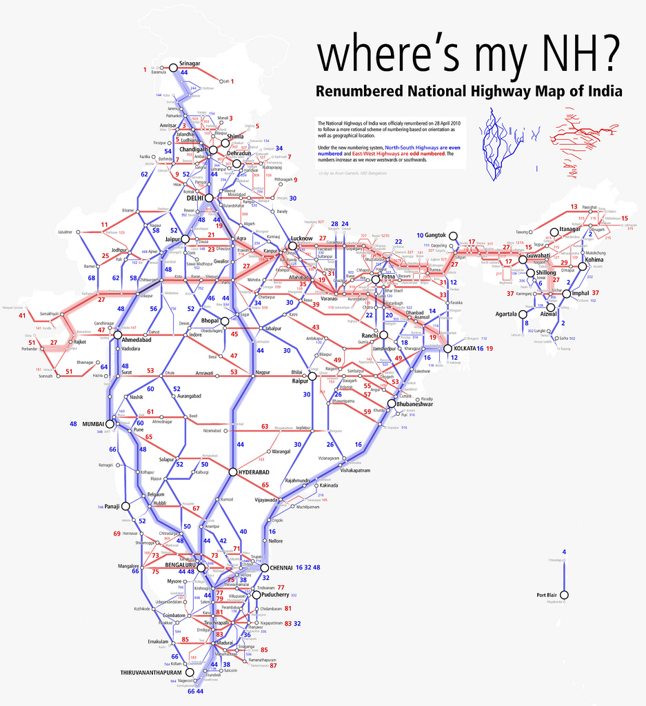 I have always been itching to make a graphic that shows the full network with the numbers which I have never been able to find. The officially notified new numbering scheme for the NH network depending on its orientation and its geographical position. Using my old File:India_roadway_map.svg as a base, I carefully plotted all the missing links and new highways on paper. Not only is this the first ever visualization of the new numbering scheme but also the most complete and updated map of the NH network you will find anywhere. Apart from being a good visual reference, the map also helps to identify issues in the new numbering scheme caused by strictly following the east-west and north-south orientation rules.